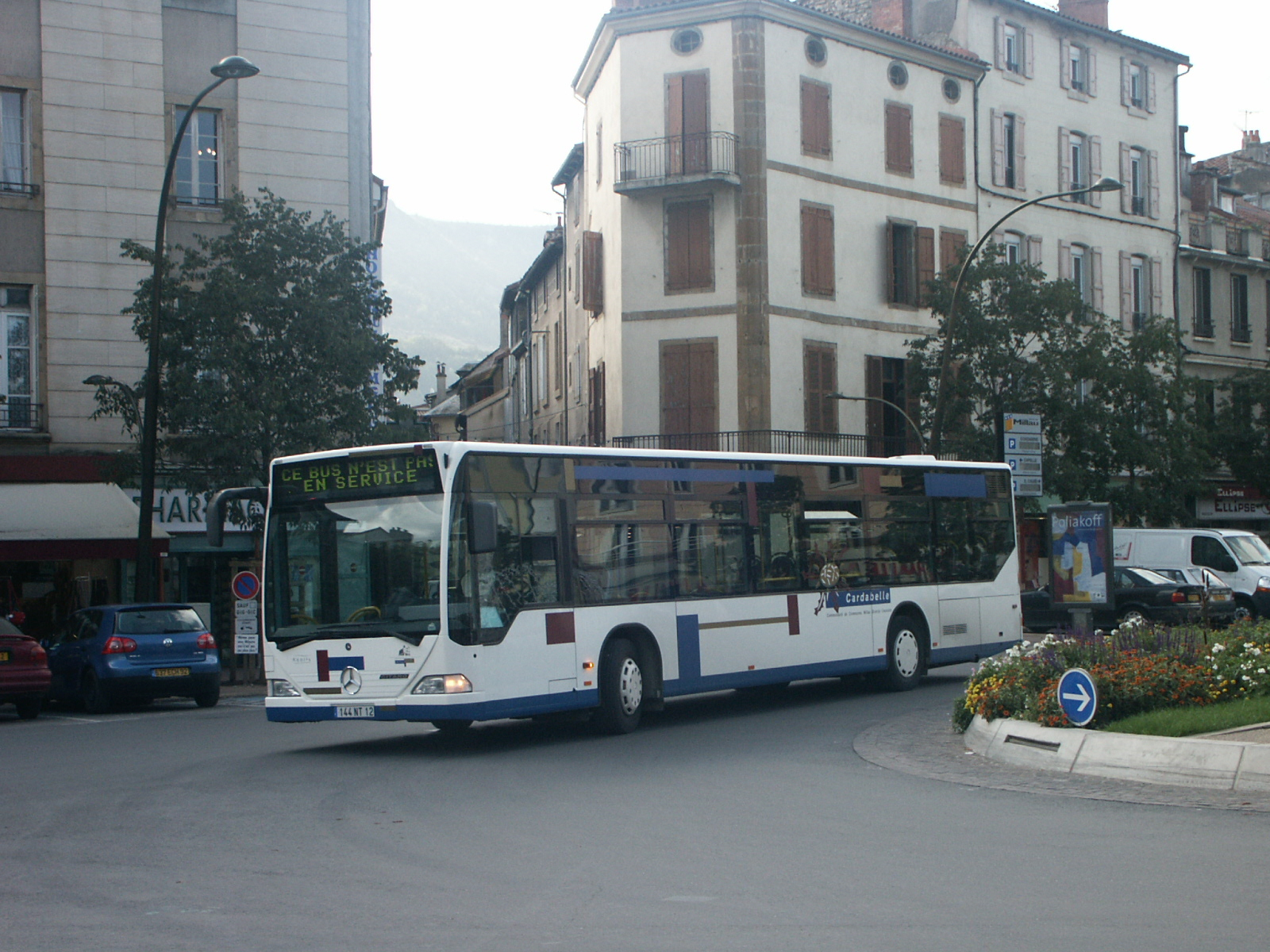 A Mercedes-Benz Citaro C1 (Keolis Aveyron) running in the city centre (Millau, France) on October 17, 2005.